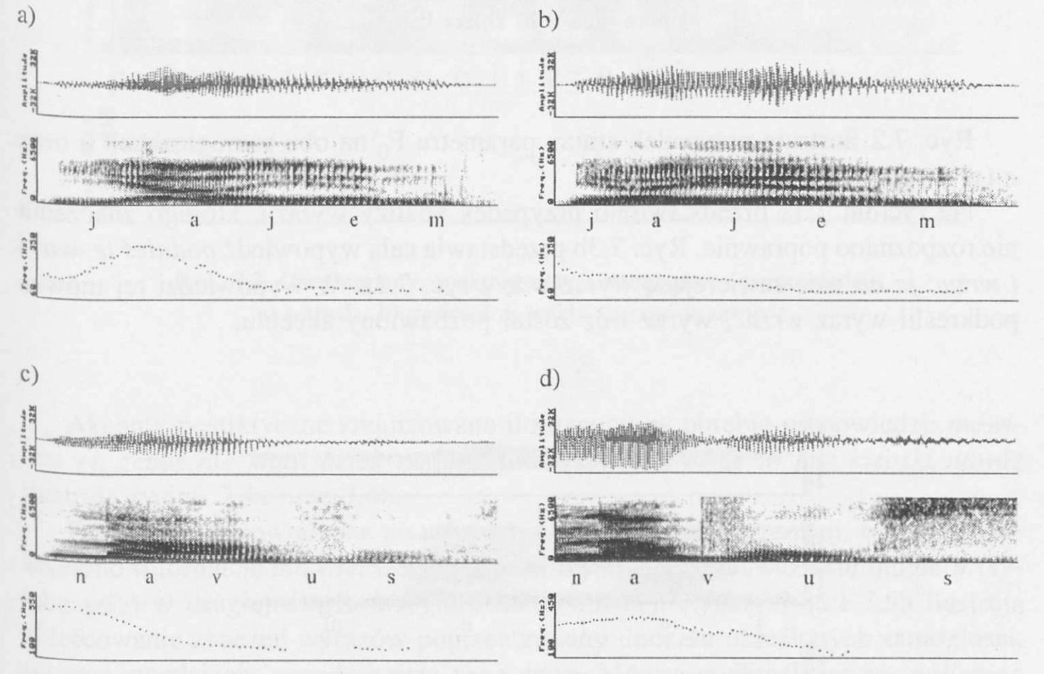 Figure 7.1 (p.63) of File:Analiza cech suprasegmentalnych języka polskiego na potrzeby technologii mowy.pdf — Caption translated by "Oscillograms, spectrograms and intonograms of expression (a) jajem [egg] (b) ja jem [I'm eating] (c) nawóz [fertiliser] (d) na wóz [on a cart]"